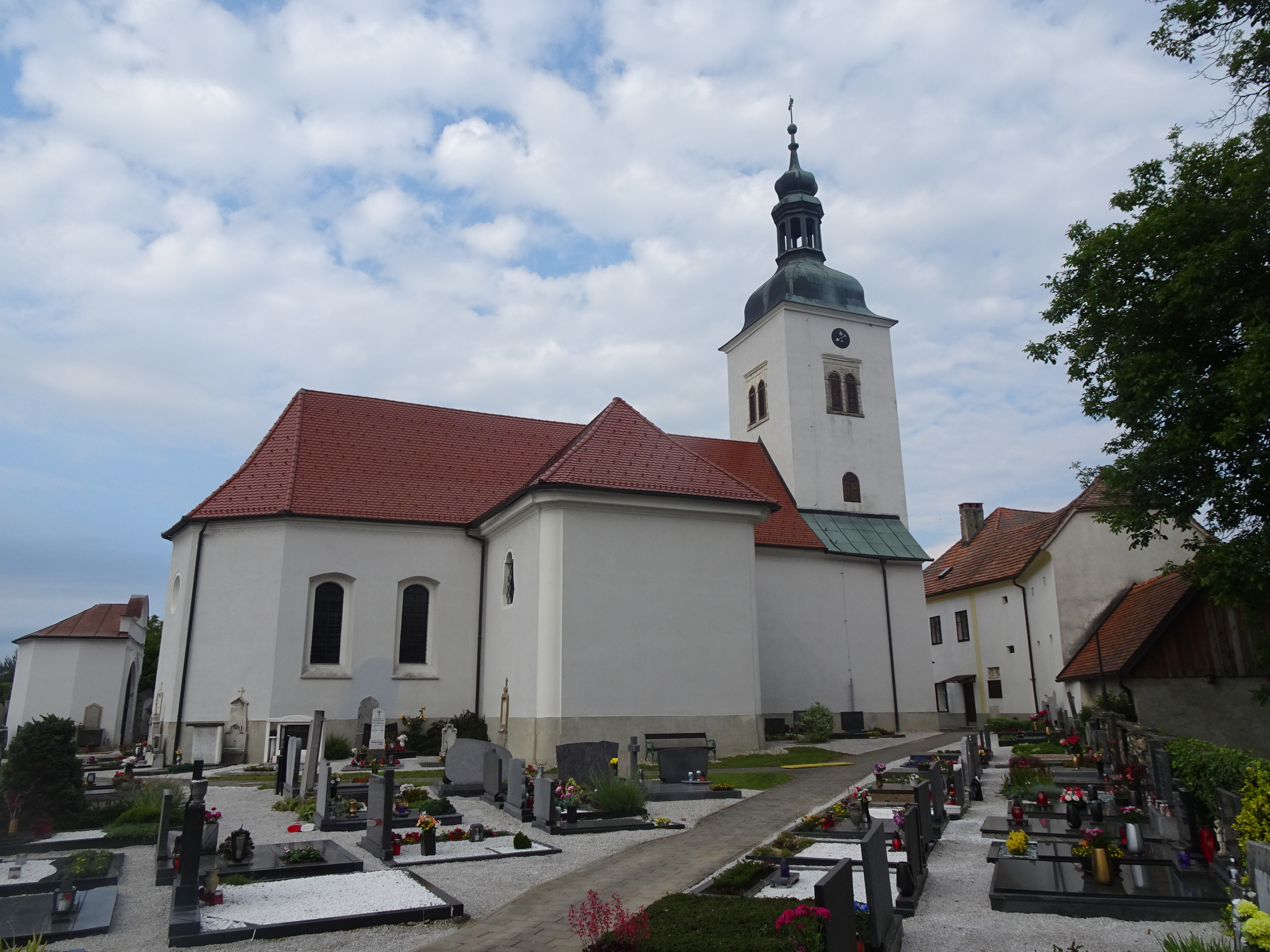 Spodnja Polskava Church, Slovenia